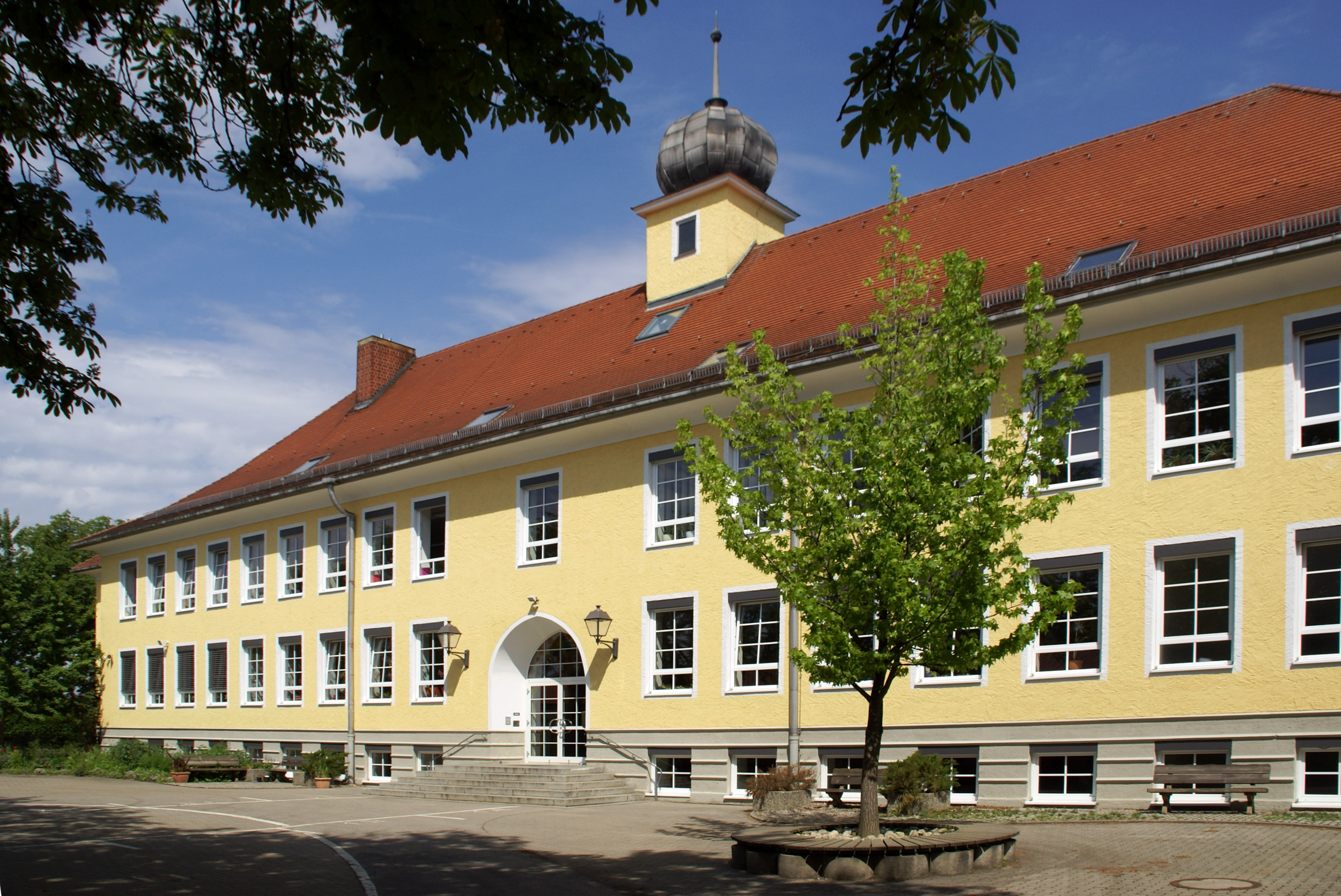 Elementary school in Töging am Inn, Erhartinger Straße 8